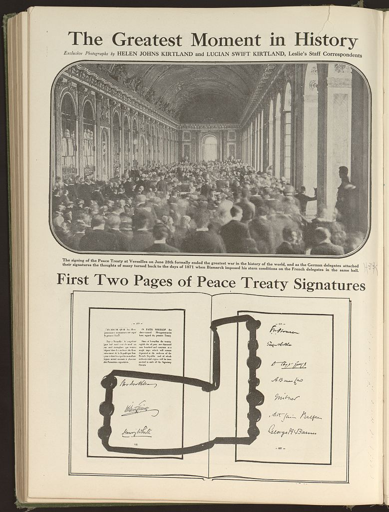 Dignitaries gathered in the Hall of Mirrors at Versailles to sign the peace treaty ending WW I